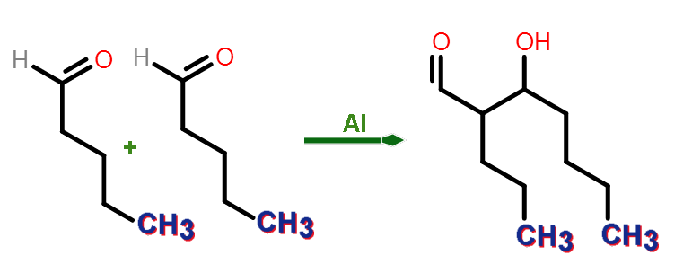 Catalytical valeraldehyde self-aldol reaction giving 2-propyl-3-hydroxyl-heptanal